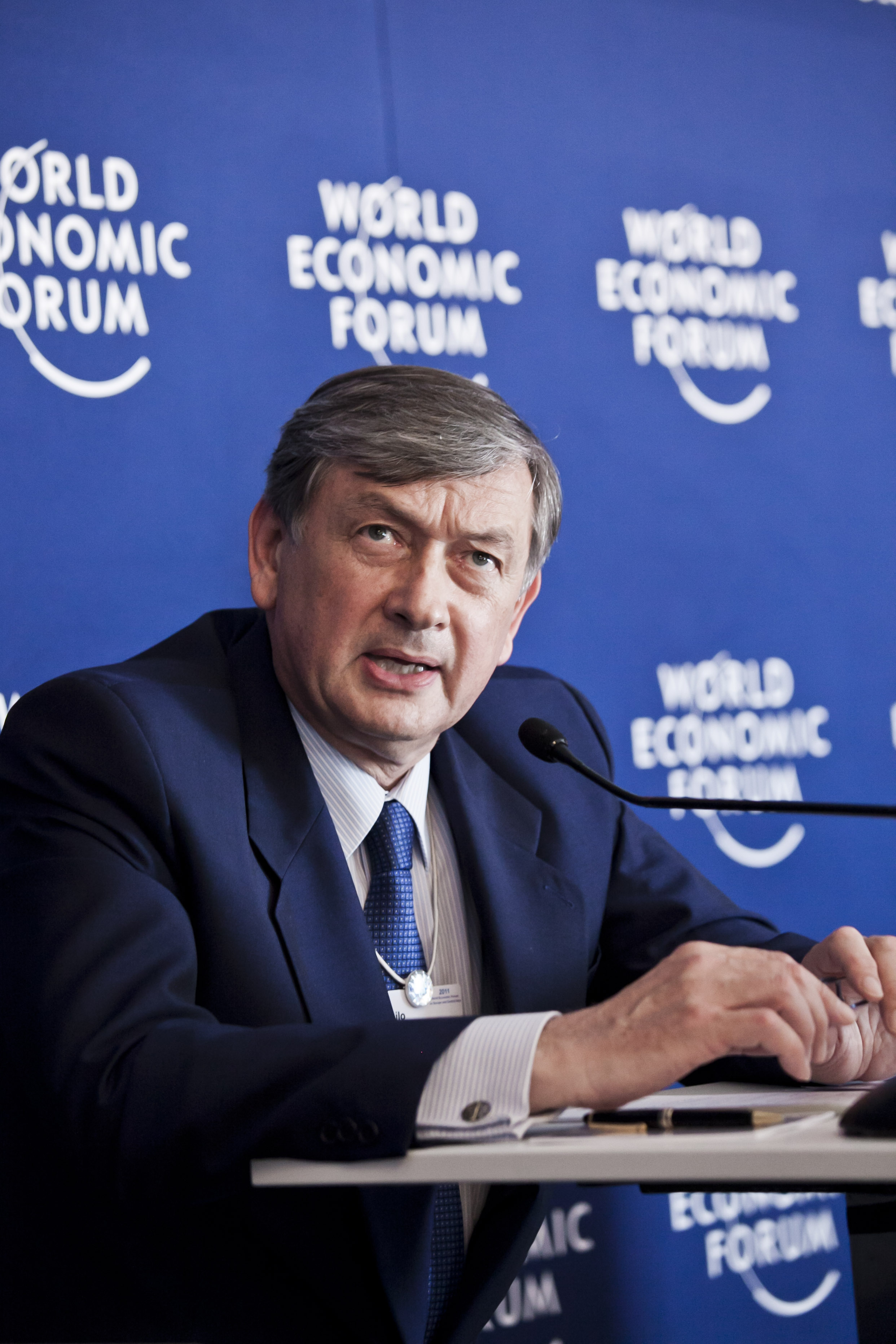 VIENNA/AUSTRIA, 8JUN11 - Danilo Türk, President of the Republic of Slovenia at the World Economic Forum on Europe and Central Asia held in Vienna, Austria, June 8, 2011. Copyright World Economic Forum /Photo by Heinz Tesarek